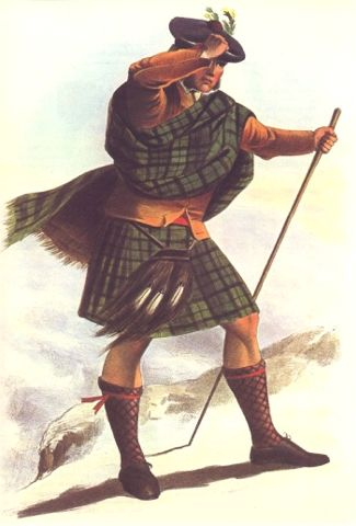 Source: James Logan, R. R. MacIan (ill.) The Clans of The Scottish Highlands. First published 1845, reprinted 1847. Creator: Robert Ronald MacIan (1803-1856)